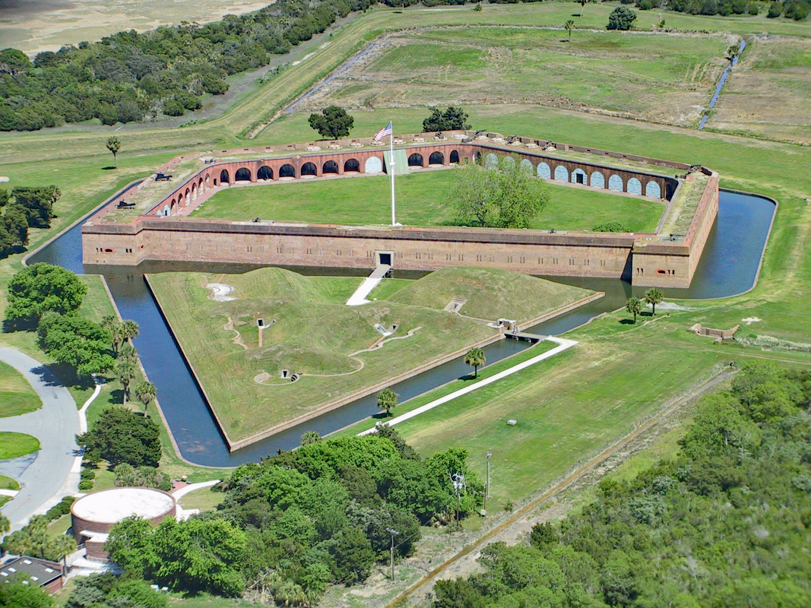 Aerial photo of Fort Pulaski, Georgia, April 2002